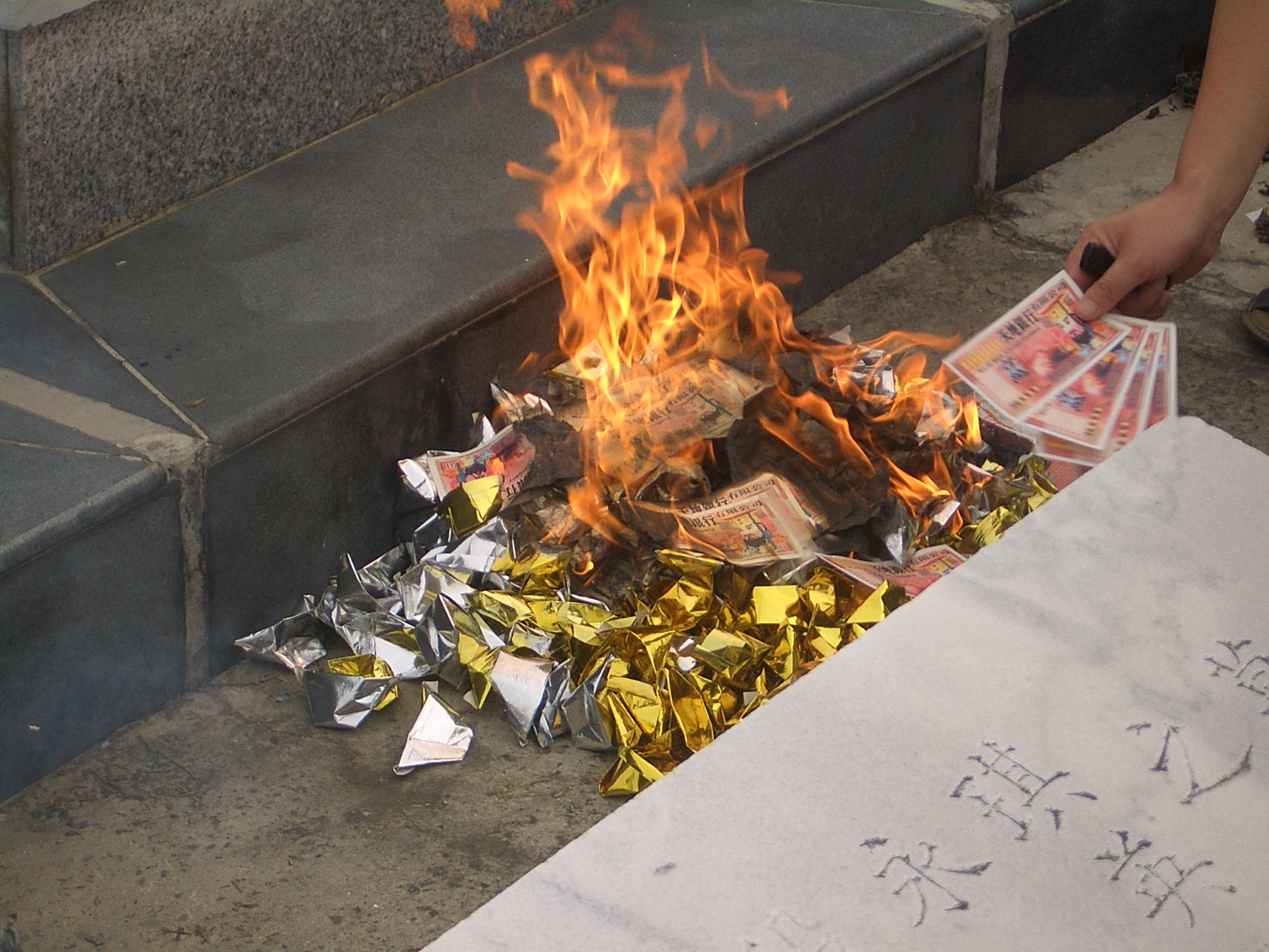 Imitation paper money (issued by "天地银行", "The Bank of Heaven and Earth") and yuanbao burnt at ancestors' graves around the time of the Ghost Festival. (Jiangsu Province).